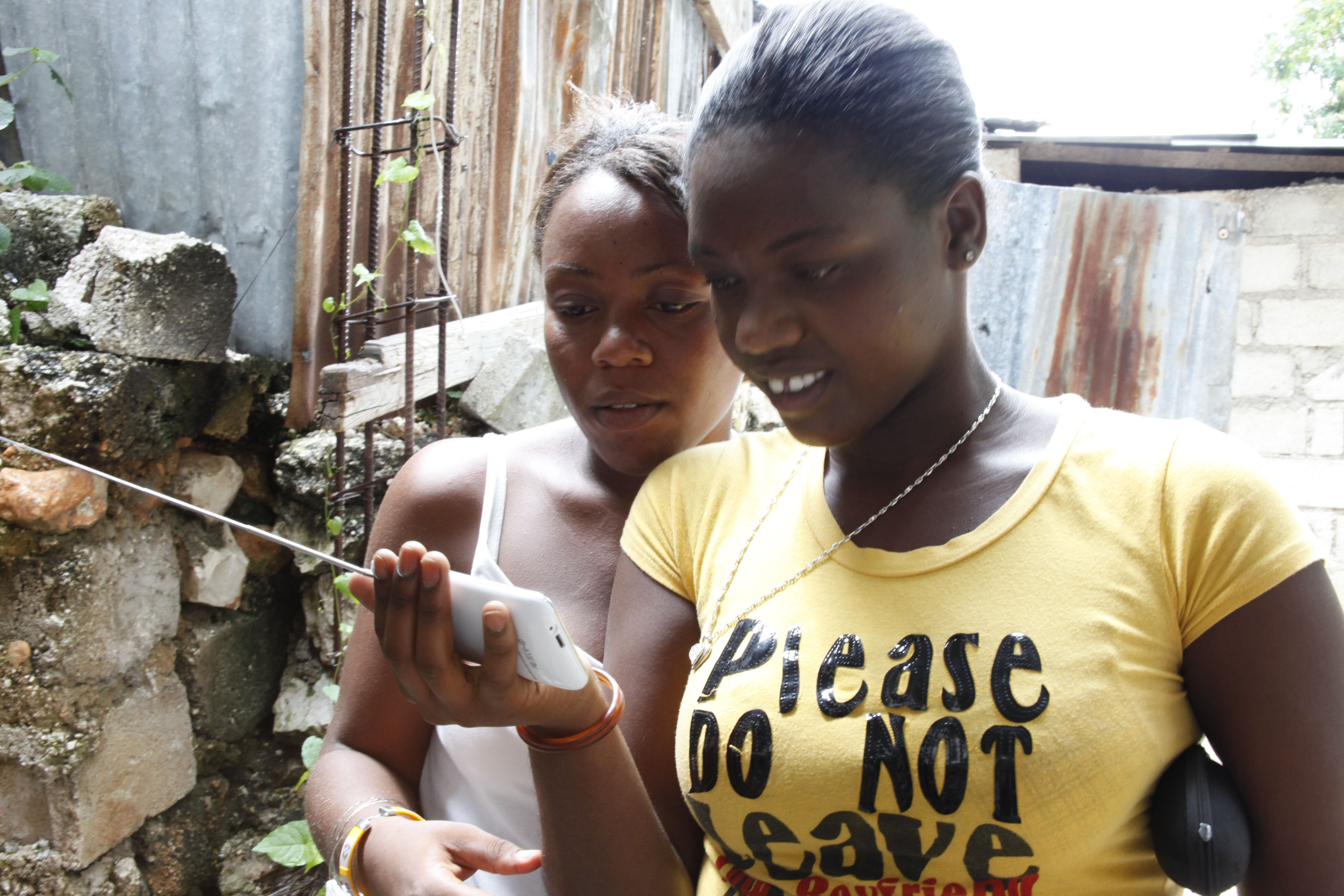 The mobile phone network in Haiti was vital in the weeks and months after the 2010 earthquake. Aid agencies such as the Red Cross used text messaging to communicate public health information to hundreds of thousands of people, helping to prevent the spread of disease. Photograph: Russell Watkins/Department for International Development